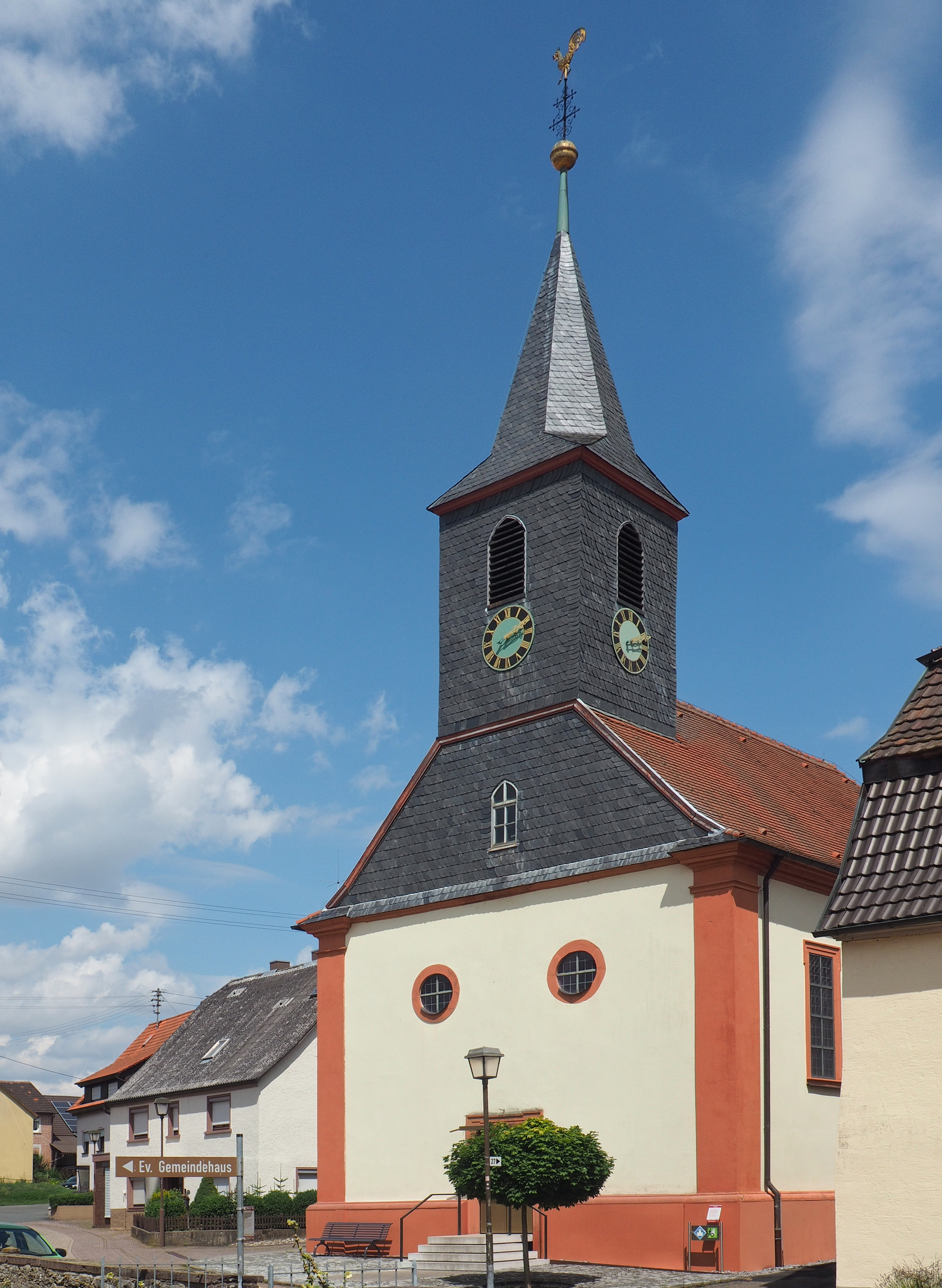 Protestant church in Hirschlanden.